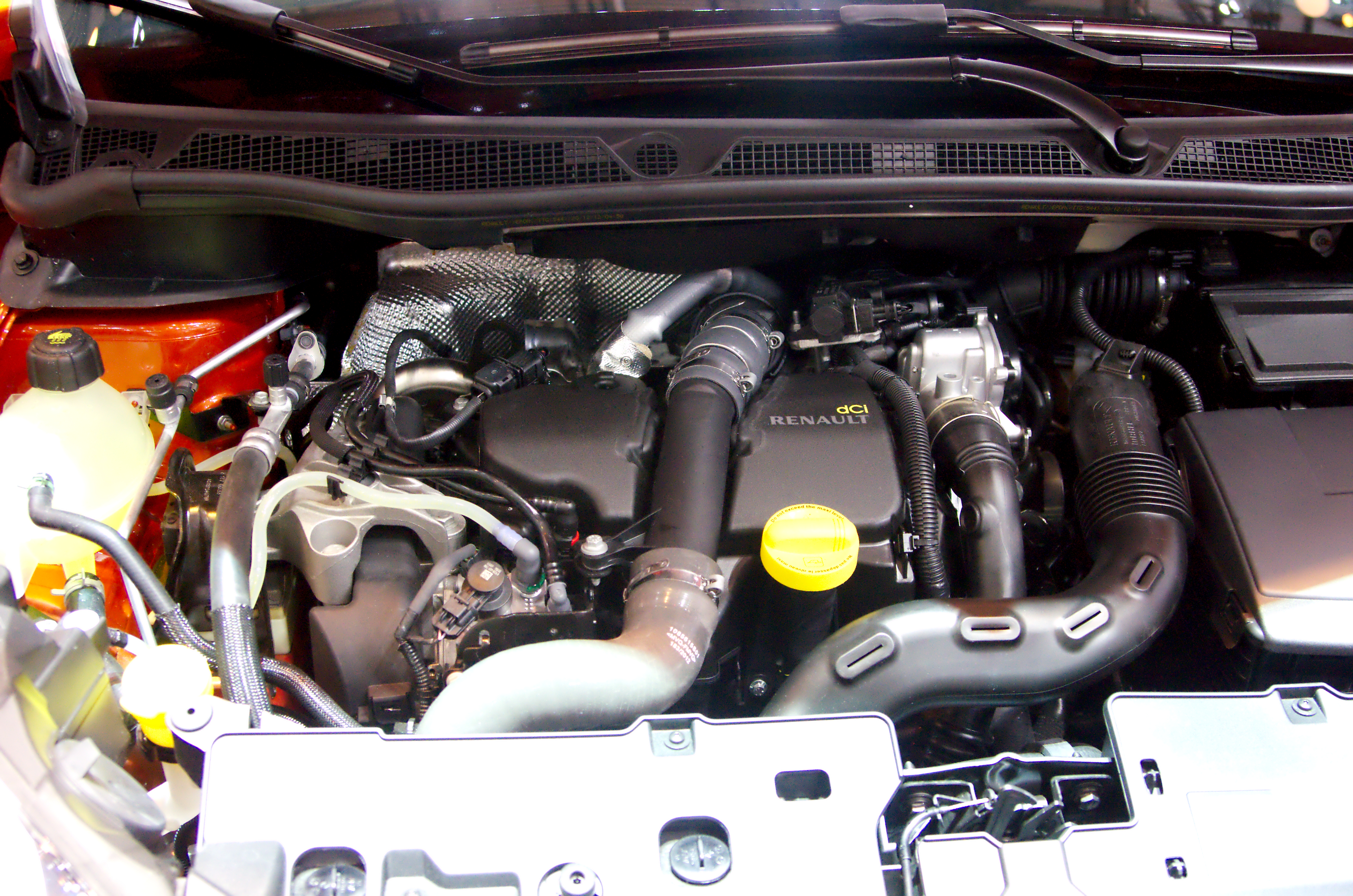 Geneva MotorShow 2013 - Renault Scenic XMod DCI engine